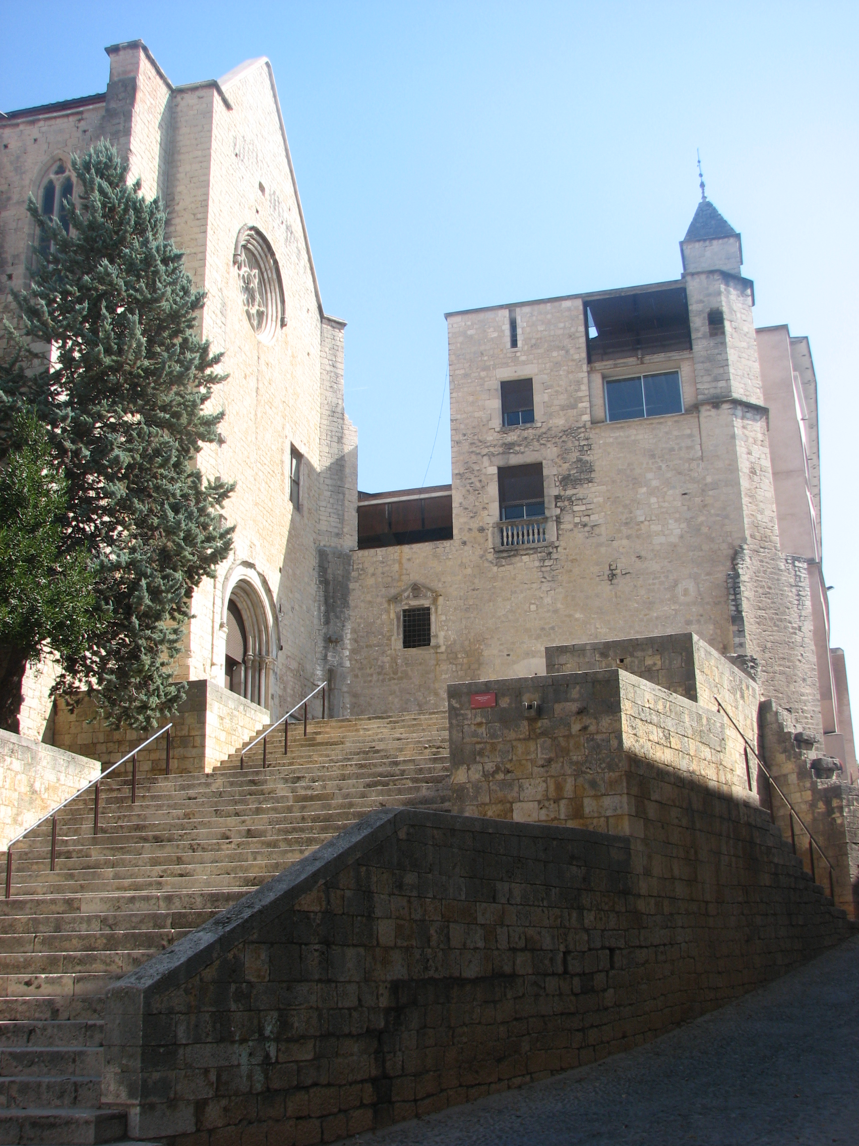 Convent de Sant Domènec (Girona)